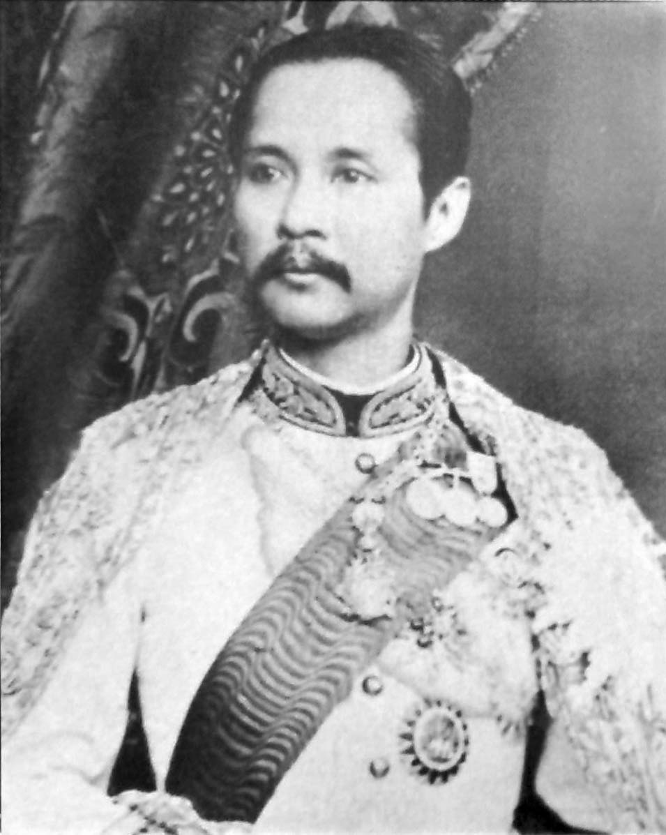 Portrait photograph of King Chulalongkorn of Siam, now Thailand